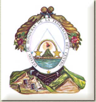 The creation of the coat of arms of Honduras was on October 3, 1825. Dionisio Herrera, as the Head of the State of Honduras, decreed Through his initiative, Honduras acquired its own national shield, one which represents Honduran history and the rich variety of national resources that it possesses and which should be protected and conserved. The National Congress thereby declared in its decree # 16 and article 142, designated the shield as a national symbol for all uses, in a clear and general manner. The National Congress approved this in Tegucigalpa on January 10, 1935.